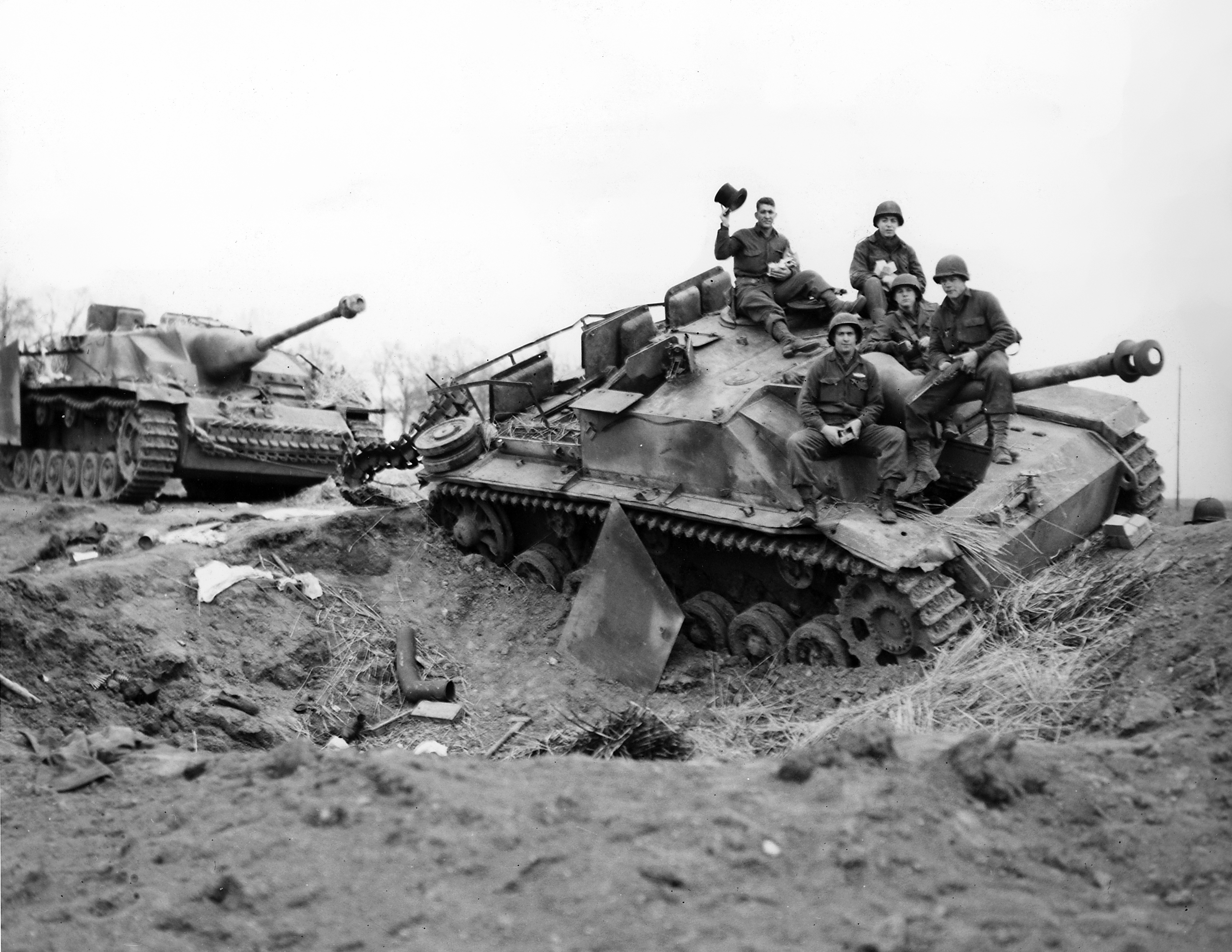 Two German Sturmgeschütz III Ausf. G assault guns knocked out by the U.S. 9th Air Force at Mödrath, Northrhine-Westphalia (Germany). The original village of Mödrath (ca N 50 53' 6" E 6 43' 17") was destroyed for open-pit mining in 1956.Official description: Two assault guns knocked out by 9th Air Force fighter-bombers near Modrath, Germany, to ease the advance of the 1st Army to Cologne. Infantrymen, one with a top hat picked up in a nearby town, sit on the disabled vehicle resting on the rim of the crater made by a bomb.